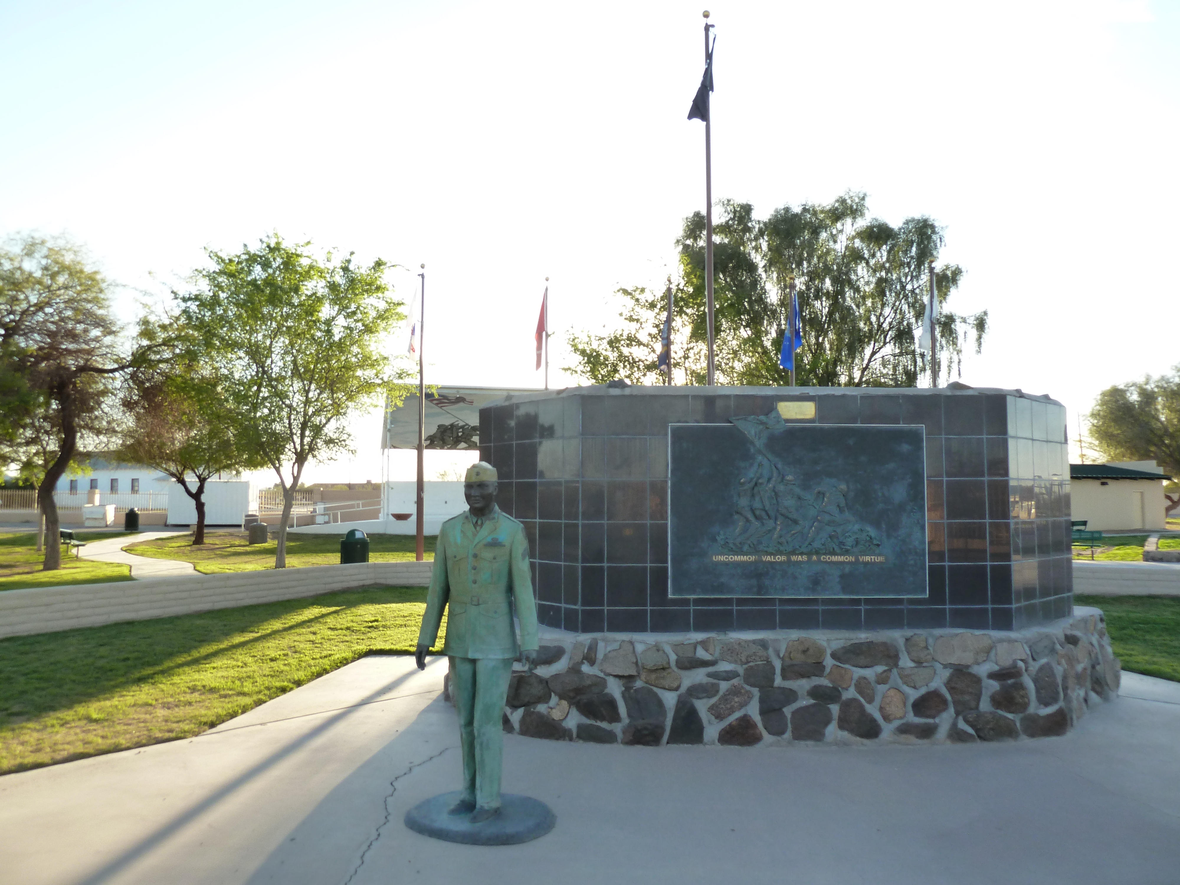 Sacaton, AZ: Ira Hayes Monument, 2012